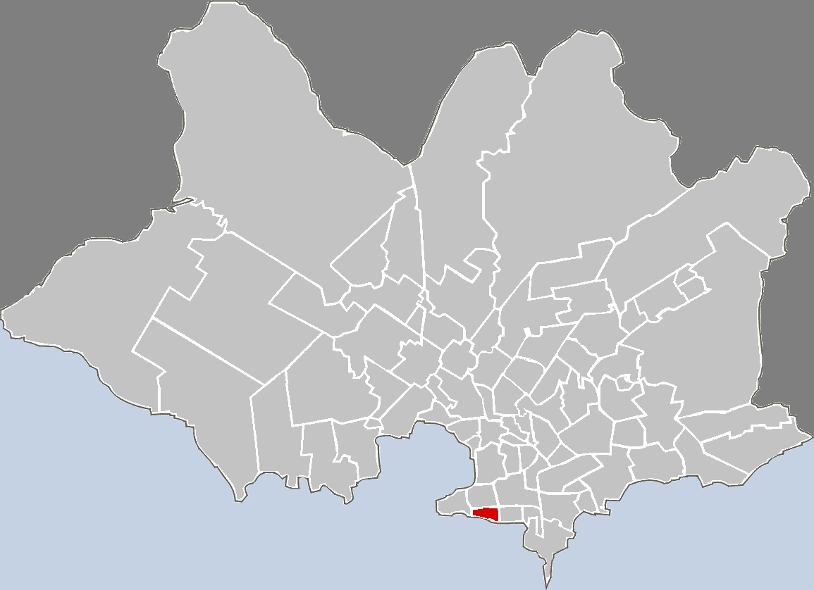 Map highlighting the given barrio in Montevideo.